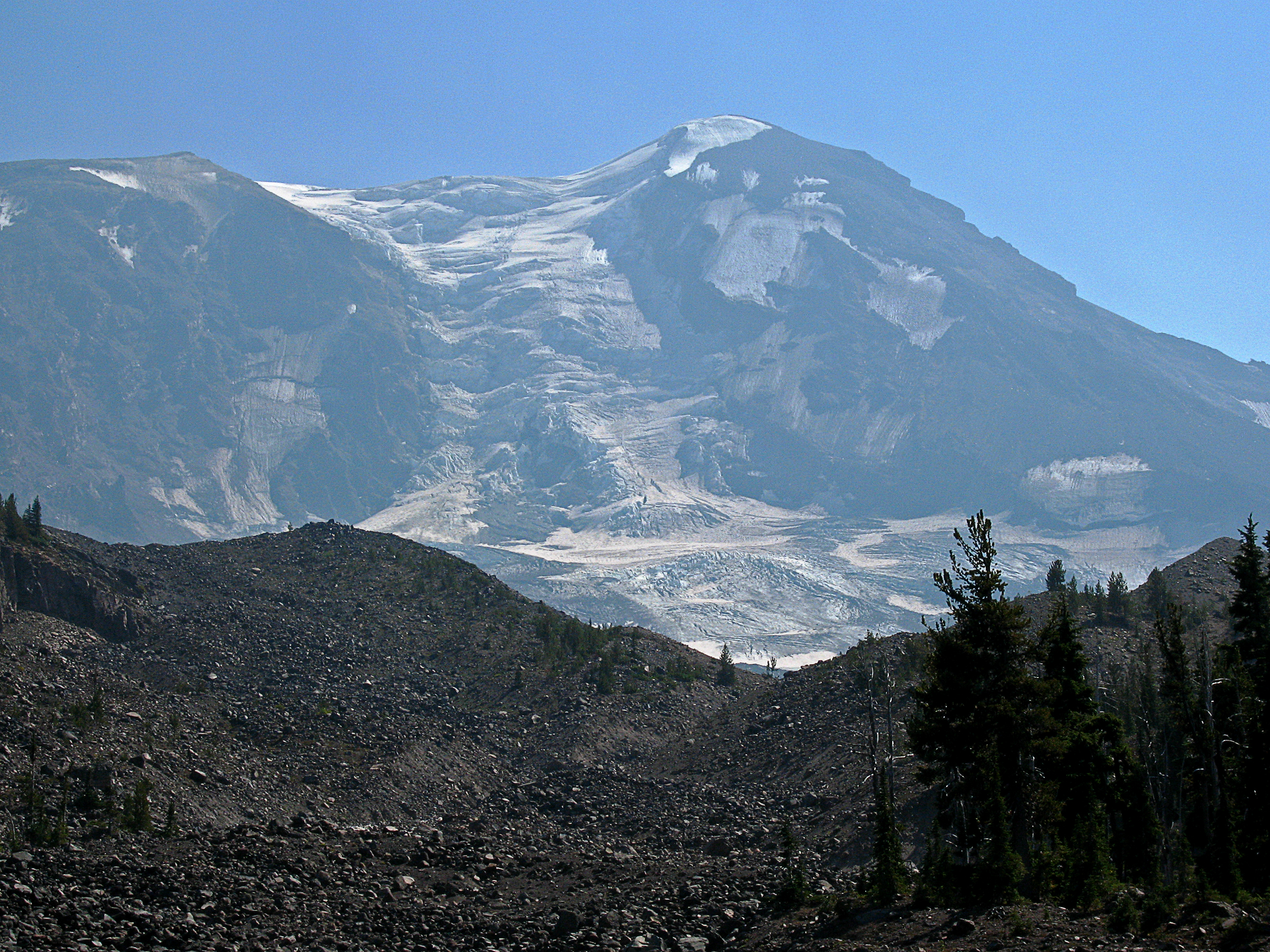 View of Mount Adams and Adams Glacier from Pacific Crest Trail near Divide Camp. (Washington, USA) The foreground rocks are, I think, part of the Takhlakh lava flow... something like 3,000 years old.